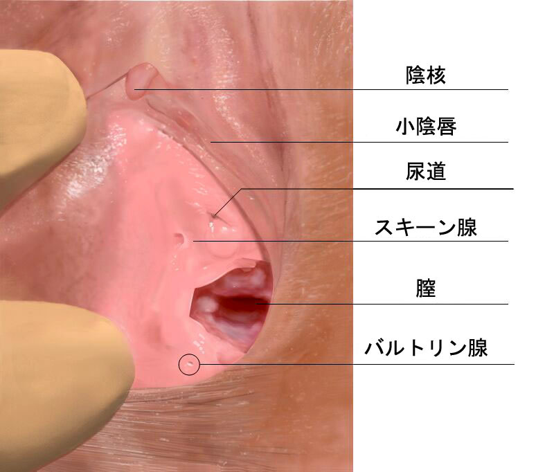 A new version of [1], legended in japanese.